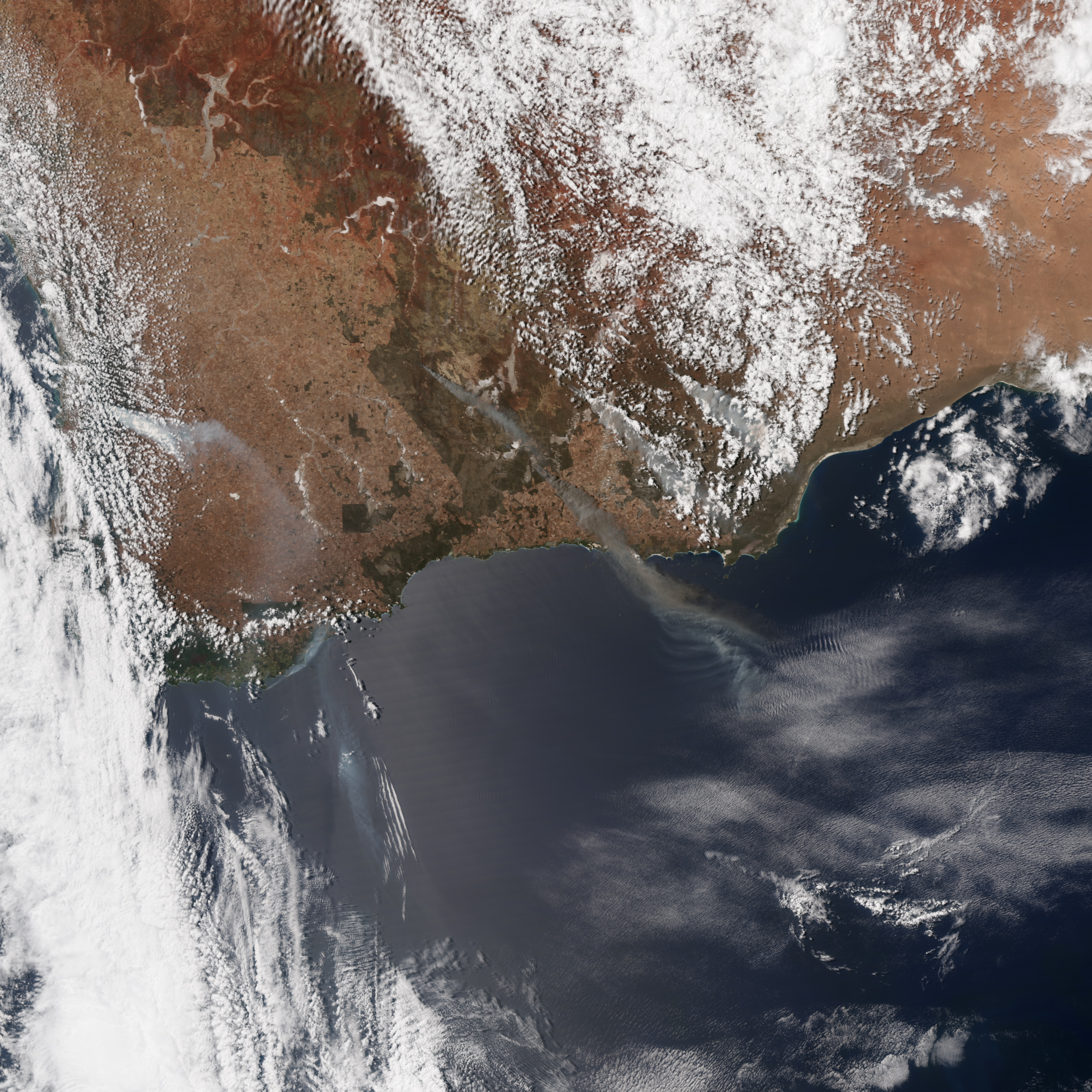 IDL TIFF file